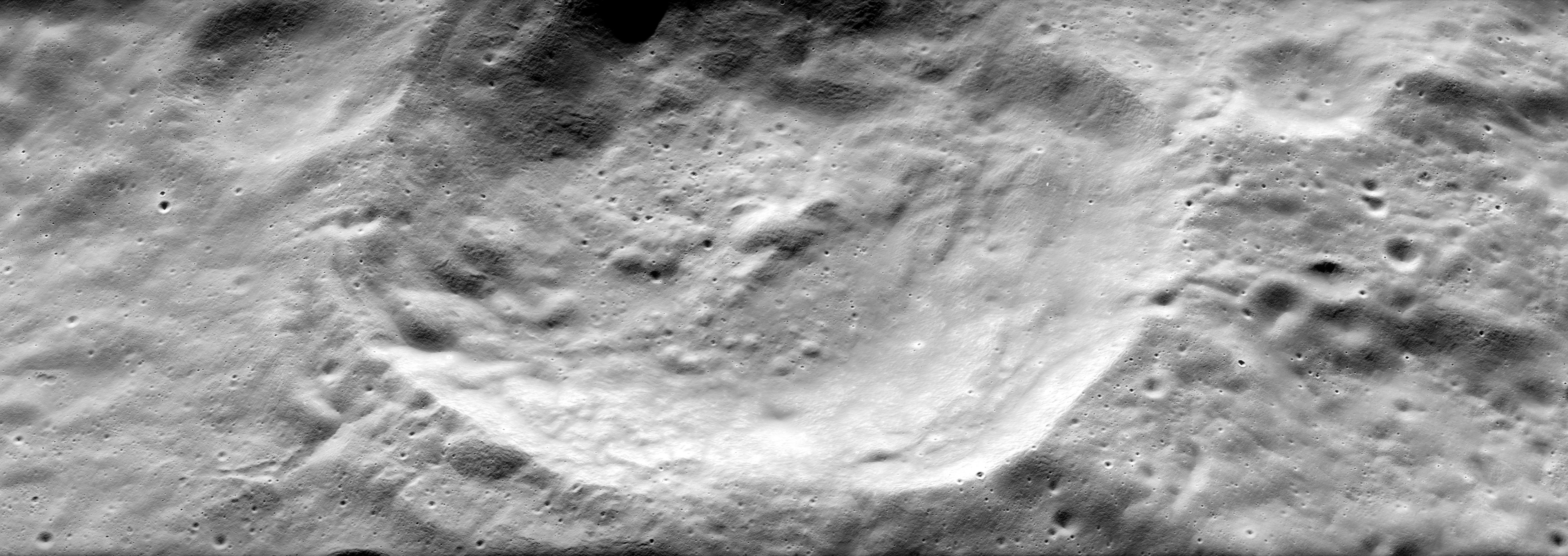 Oblique view of Delporte, facing west, on the moon.